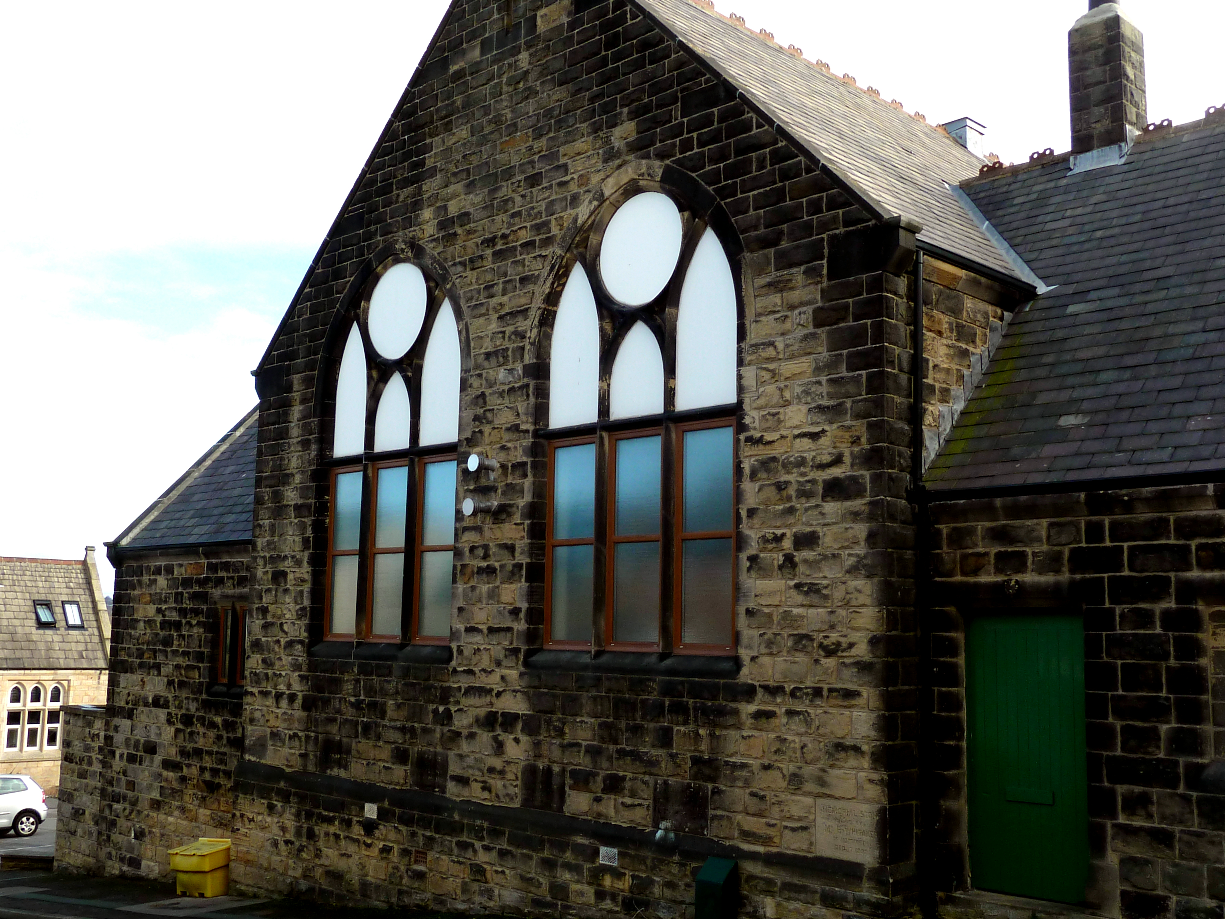 This was built as the Sunday school for the Wesleyan chapel at Rodley, Leeds, West Yorkshire, England. Both buildings were designed by Alfred Hill Thompson and completed in 1871. In 1973 the chapel was demolished; its site became a car park. The school building has been converted into a chapel, which is now named the Church in Rodley. Showing the present Church in Rodley, viewed from Wesley Street.